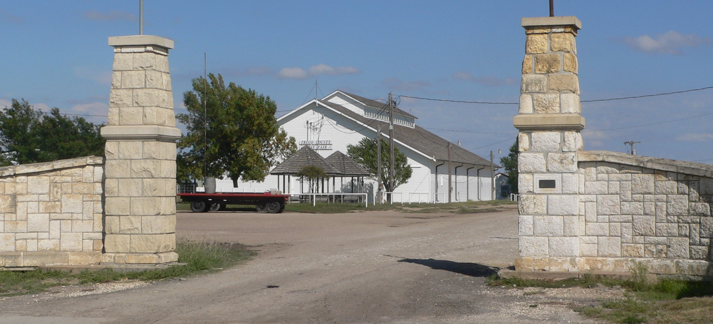 Exhibit building at Trego County fairgrounds, on east side of U.S. Highway 283 in WaKeeney, Kansas; seen from the southwest, though gates opening onto 283.